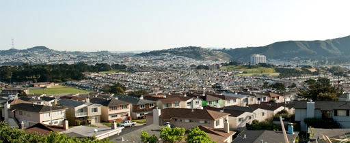 View of Daly City from the west side.